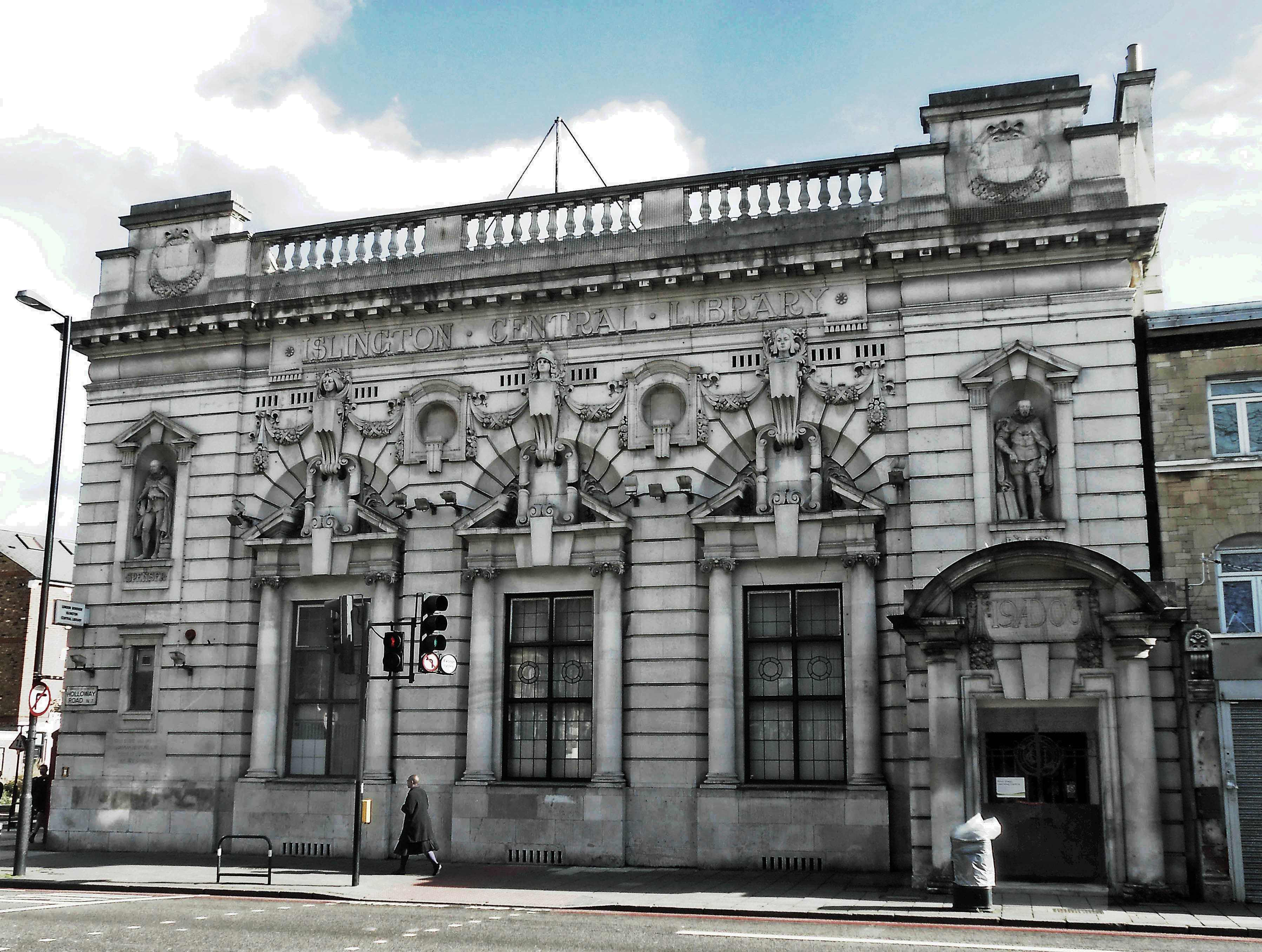 Edwardian building on Holloway Road, Islington. Edmund Spenser and Francis Bacon looking down on the passers by.